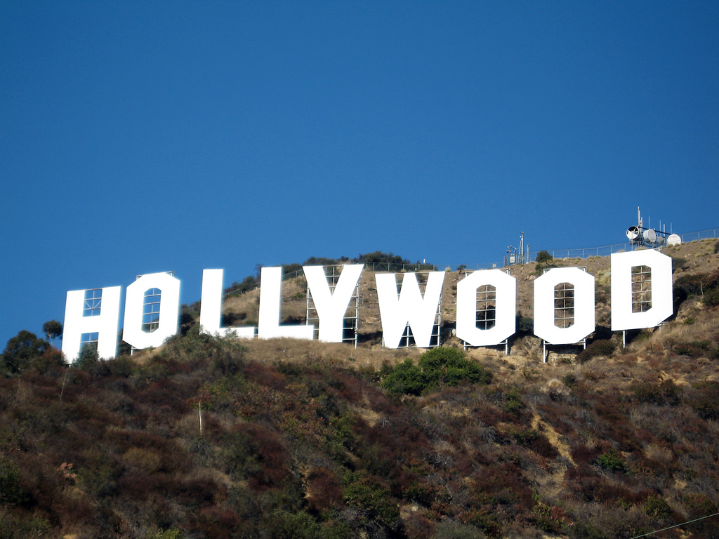 Hollywood Sign, Hollywood, California, USA.